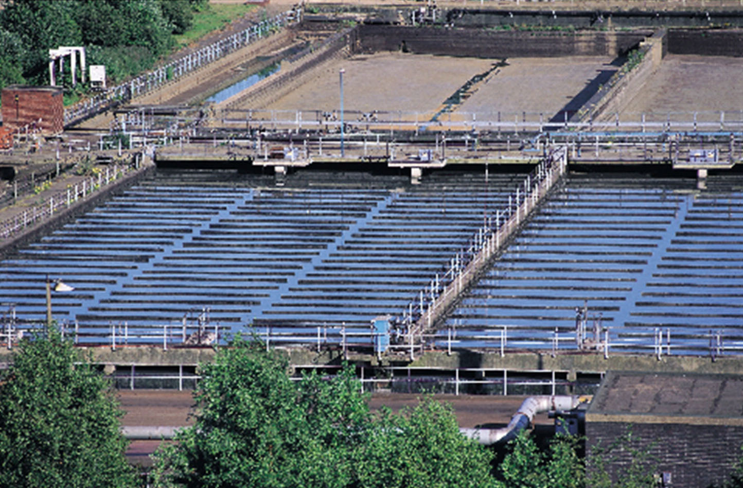 Sand filtration plant used in water purification for treating raw water.